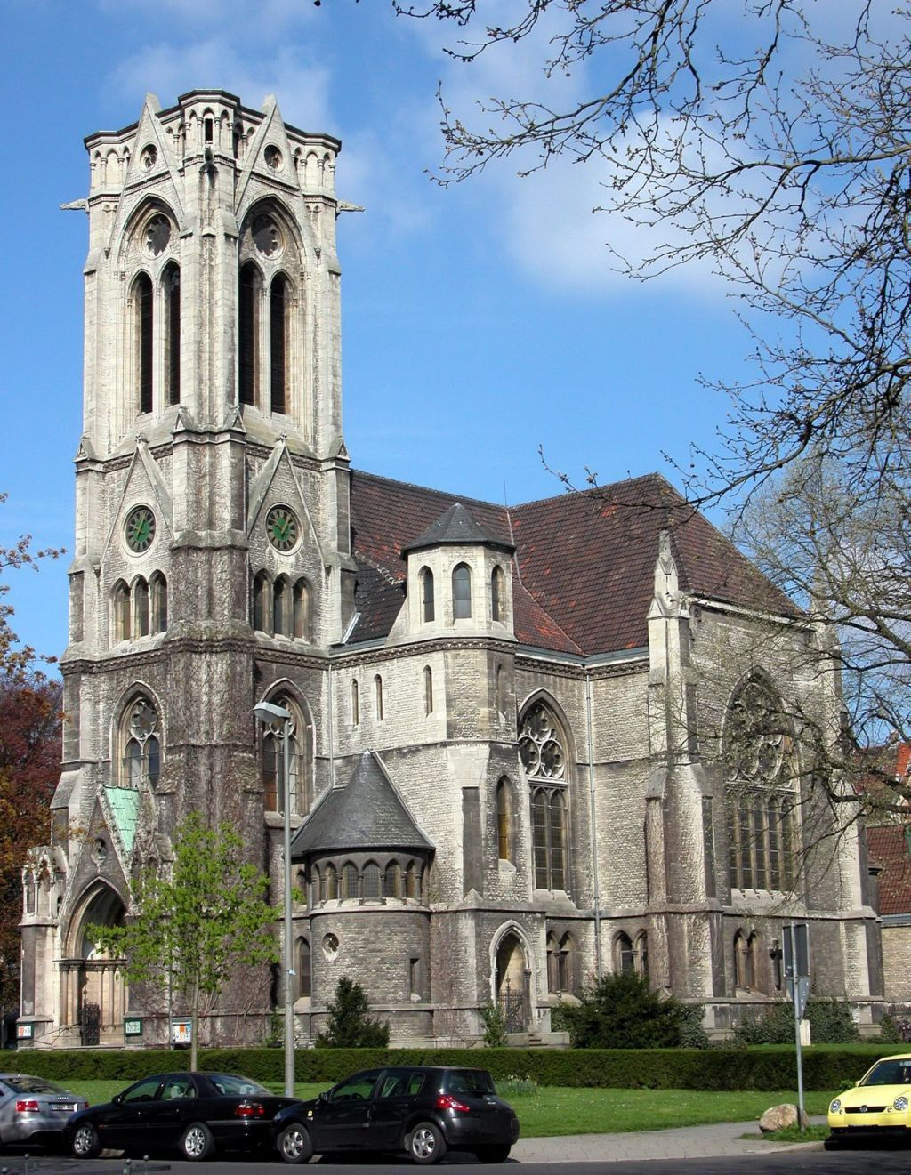 Brunswick, Germany: St. Paul’s as seen from southeast.